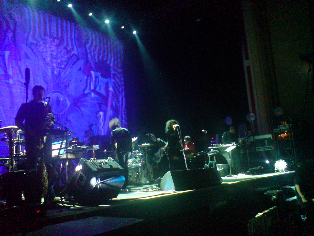 The Mars Volta